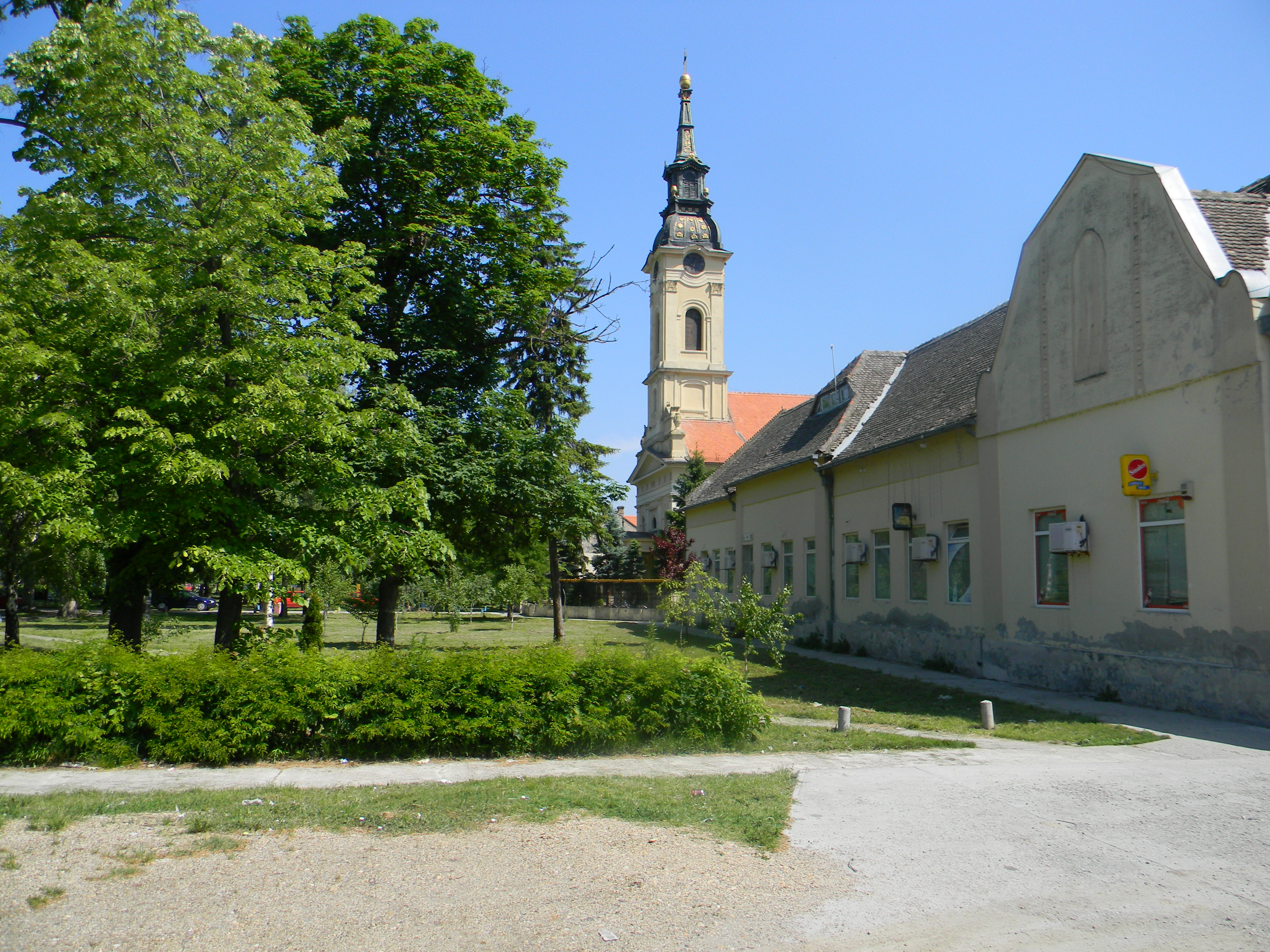 Downtown of Bavanište, Serbia